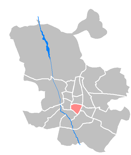 Locator maps of districts in Madrid: Maps - ES - Madrid - Retiro.PNG